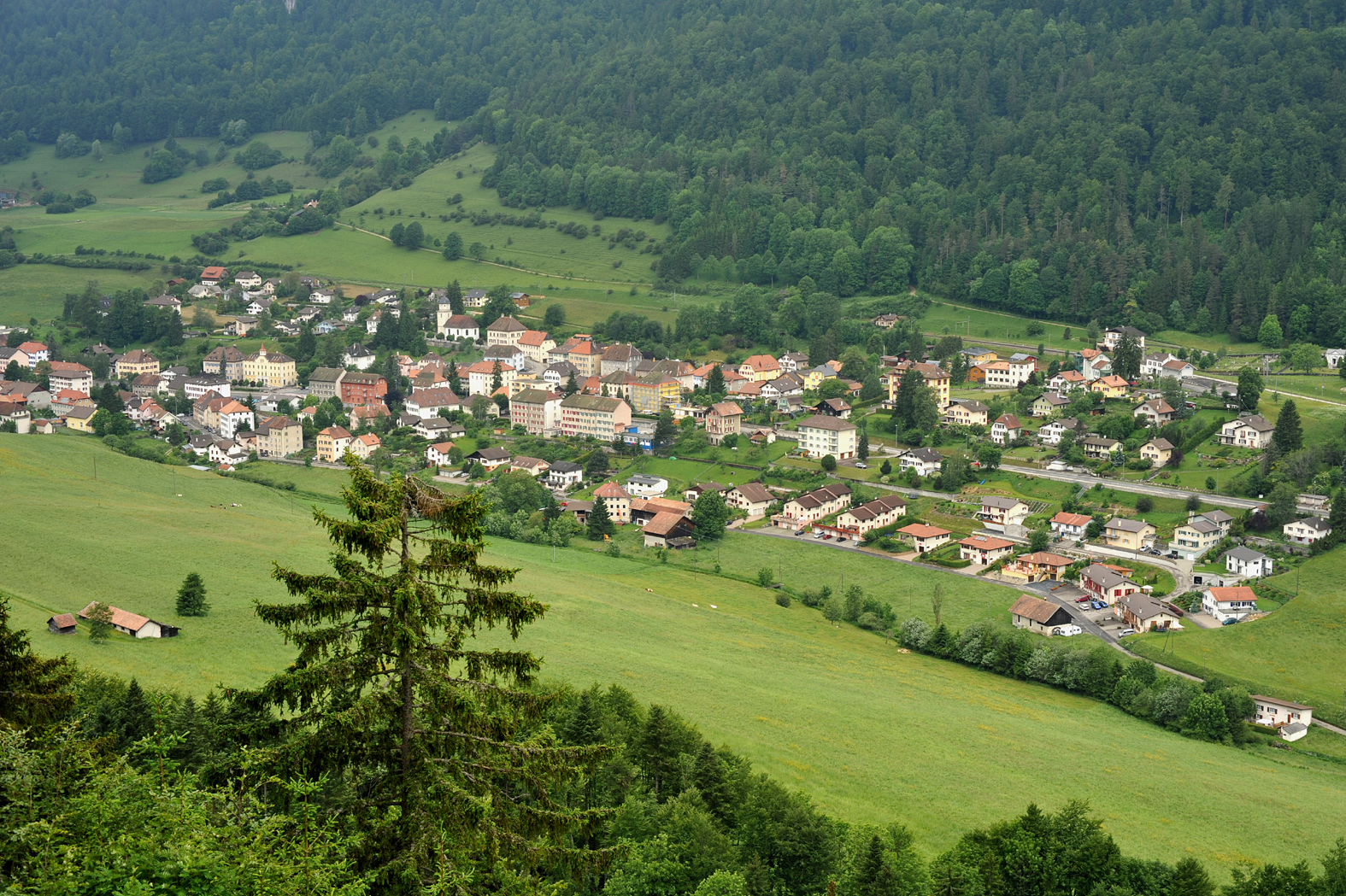 Vue to Sonvilier from the ruins of the Château d'Erguël; Berne, Switzerland.